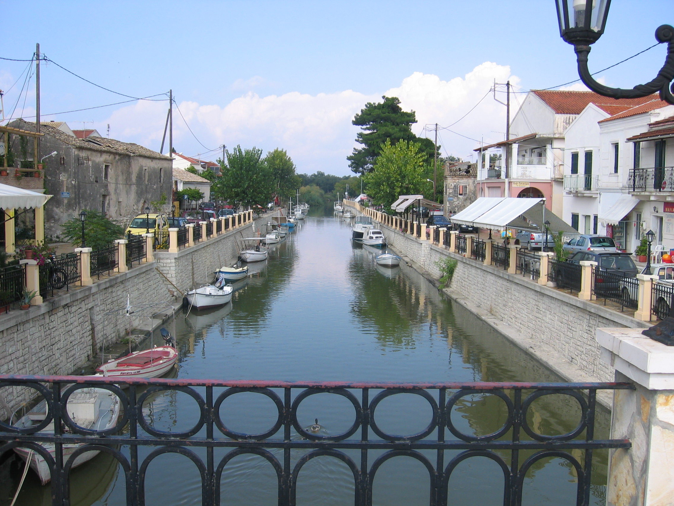 The channel that floates through Lefkimmi in the southern part of Corfu, Greece.